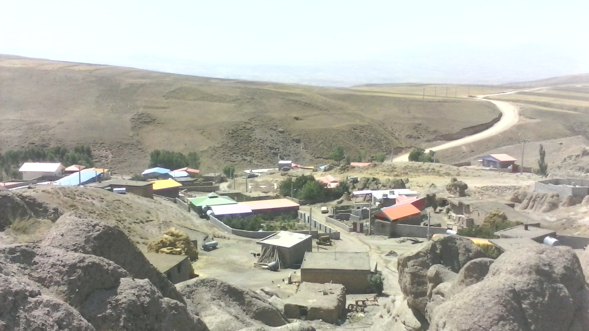 روستای اباذر